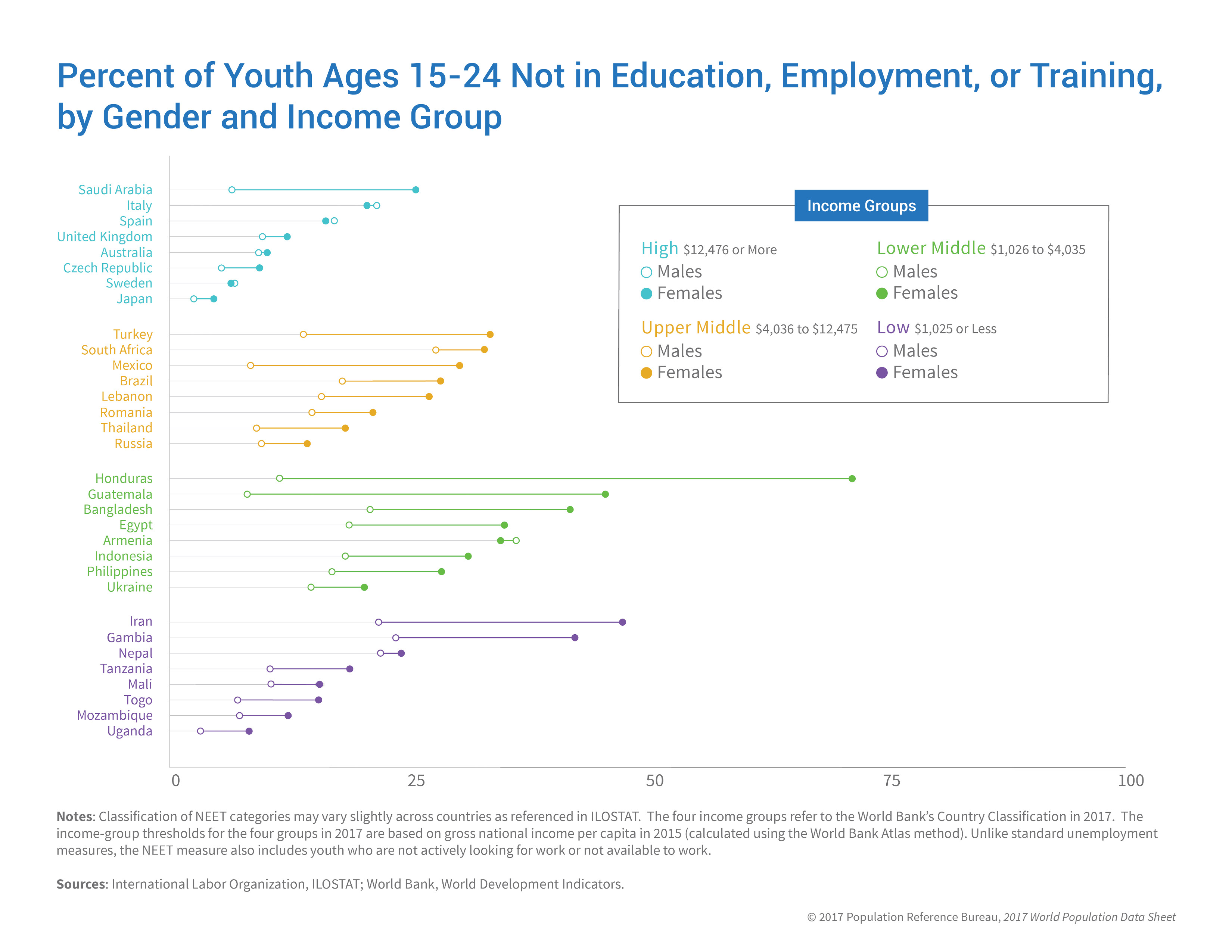 Percent of Youth Ages 15-24 Not in Education, Employment, or Training by Gender and Income Group